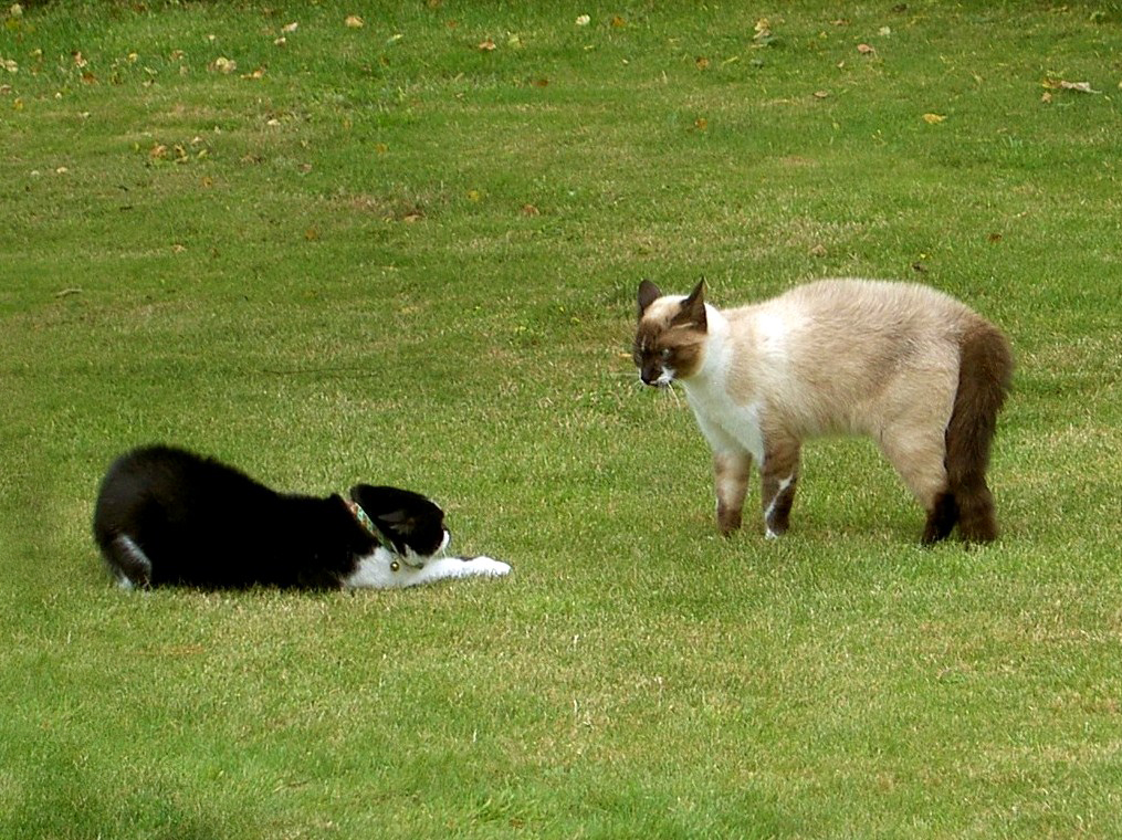 Submissive cat after a struggle.